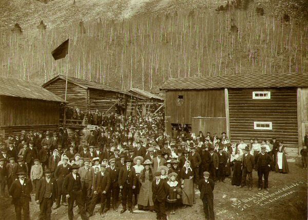 International Workers' Day 1910. Sel, Gudbrandsdalen, Norway.